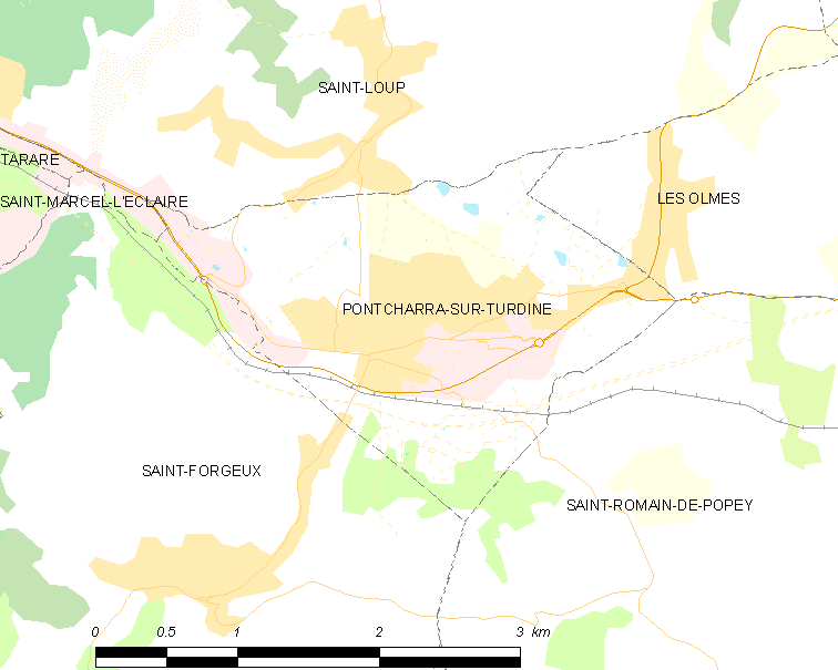 Map of French municipality